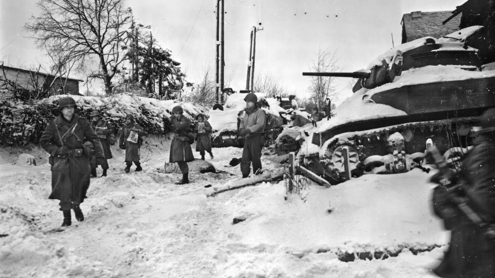 Members of the 117th Infantry Regiment, 30th Infantry Division, move past a destroyed American M5 "Stuart" tank on their march to capture the town of St. Vith at the close of the Battle of the Bulge. St. Vith was largely destroyed during the ground battle and subsequent air attack. American forces retook the town on 23 January 1945.